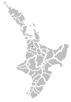 Location of Hamilton Territorial Authority, NZ.